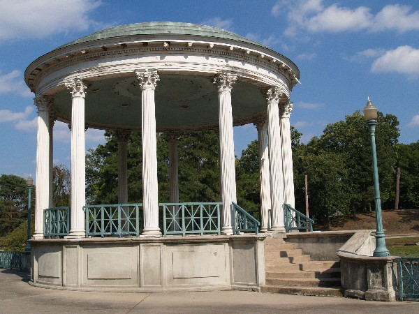 Roger Williams Park Bandstand, Providence, Rhode Island